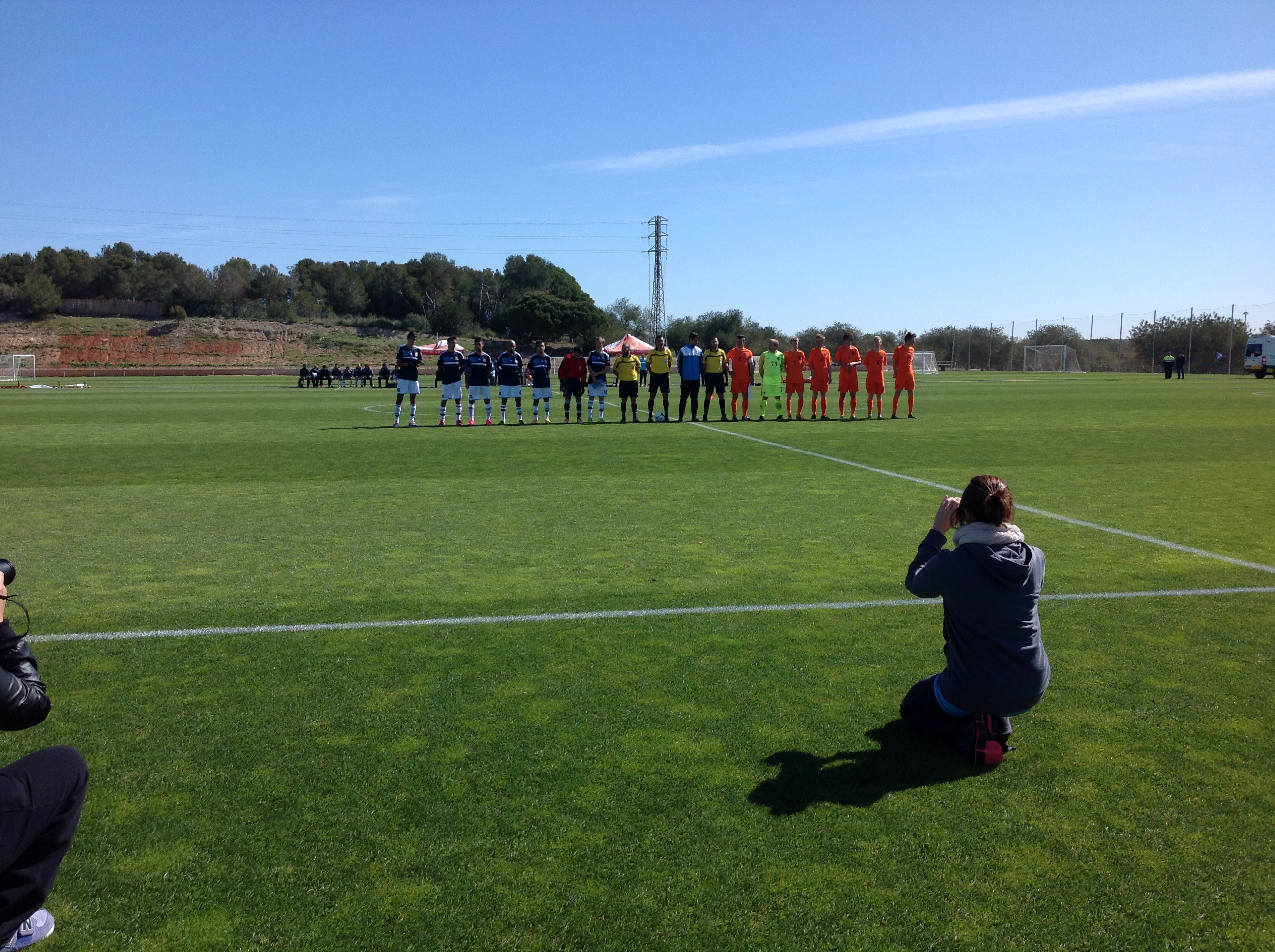 Group play where Argentina and Netherlands line up for the Salou 2016 PreParalympic tournament.